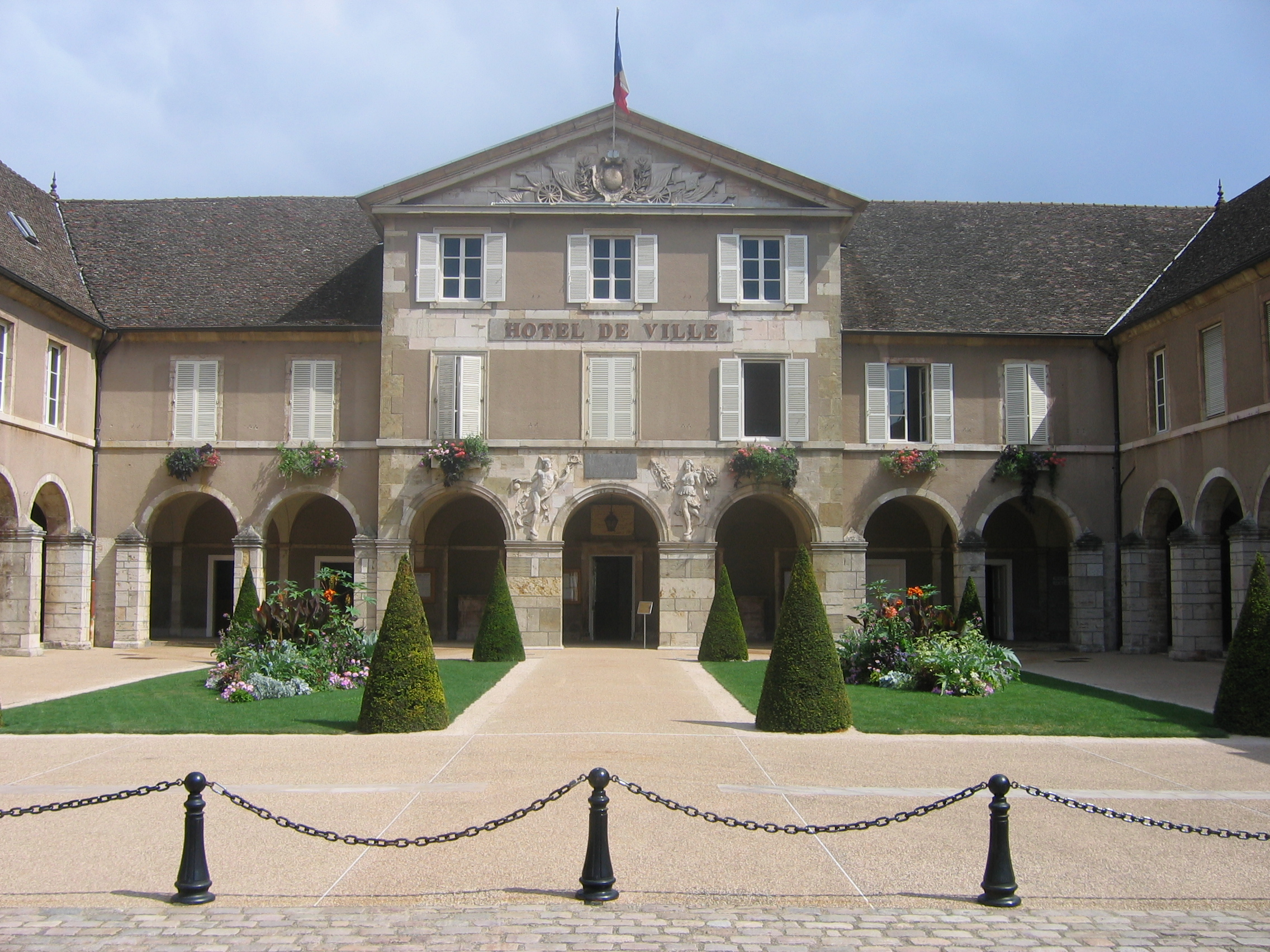 Front and courtyard of the town hall of Beaune (France).